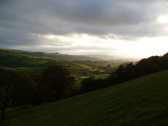 Overlooking the Bachawy Valley View SW over meadows in evening sun.